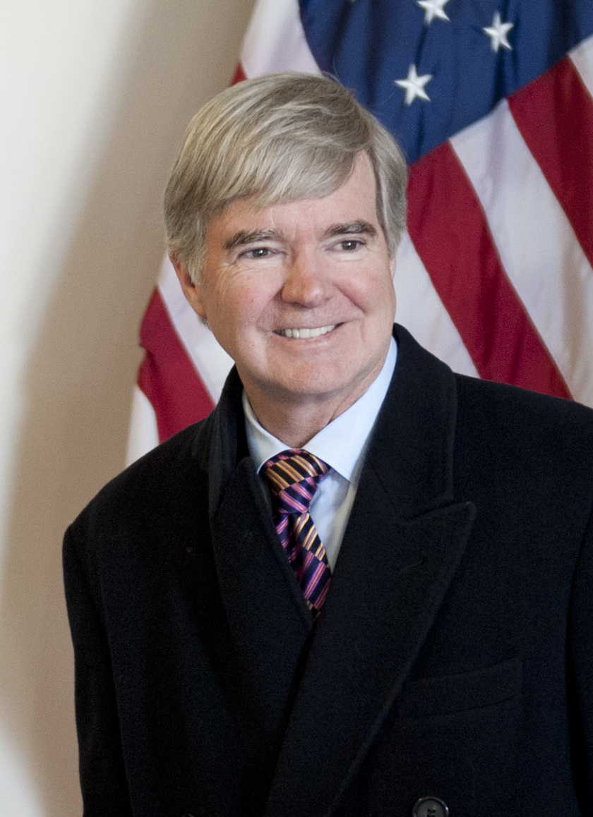 NEW LONDON, Conn. -- NCAA President Dr. Mark Emmert visits with members of the women's basketball team during his visit to the U.S. Coast Guard Academy Feb. 6, 2014. U.S. Coast Guard photo by Petty Officer 3rd Class Cory J. Mendenhall.